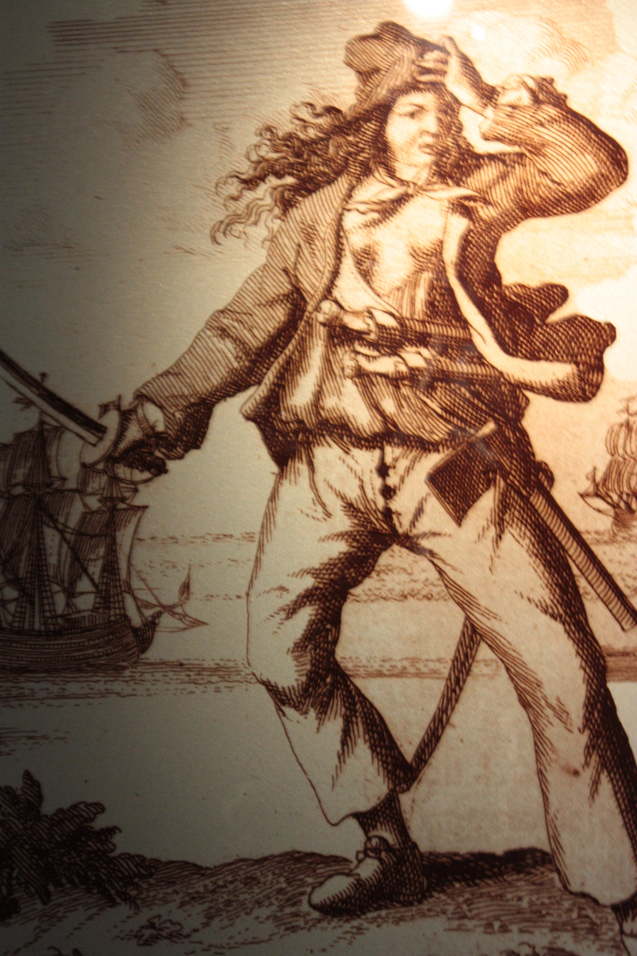 A contemporary engraving of Mary Read